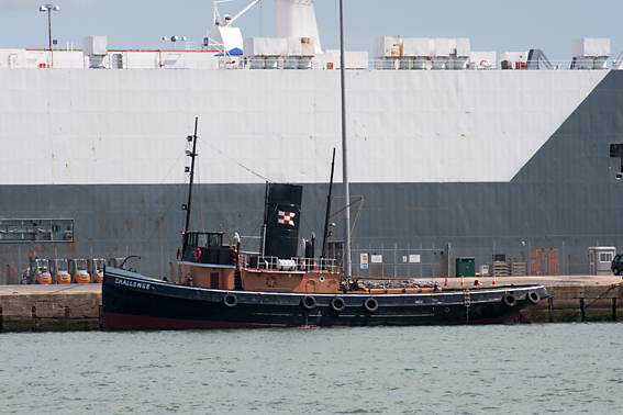 Challenge, last steam tug to operate on the River Thames. Veteran of Dunkirk